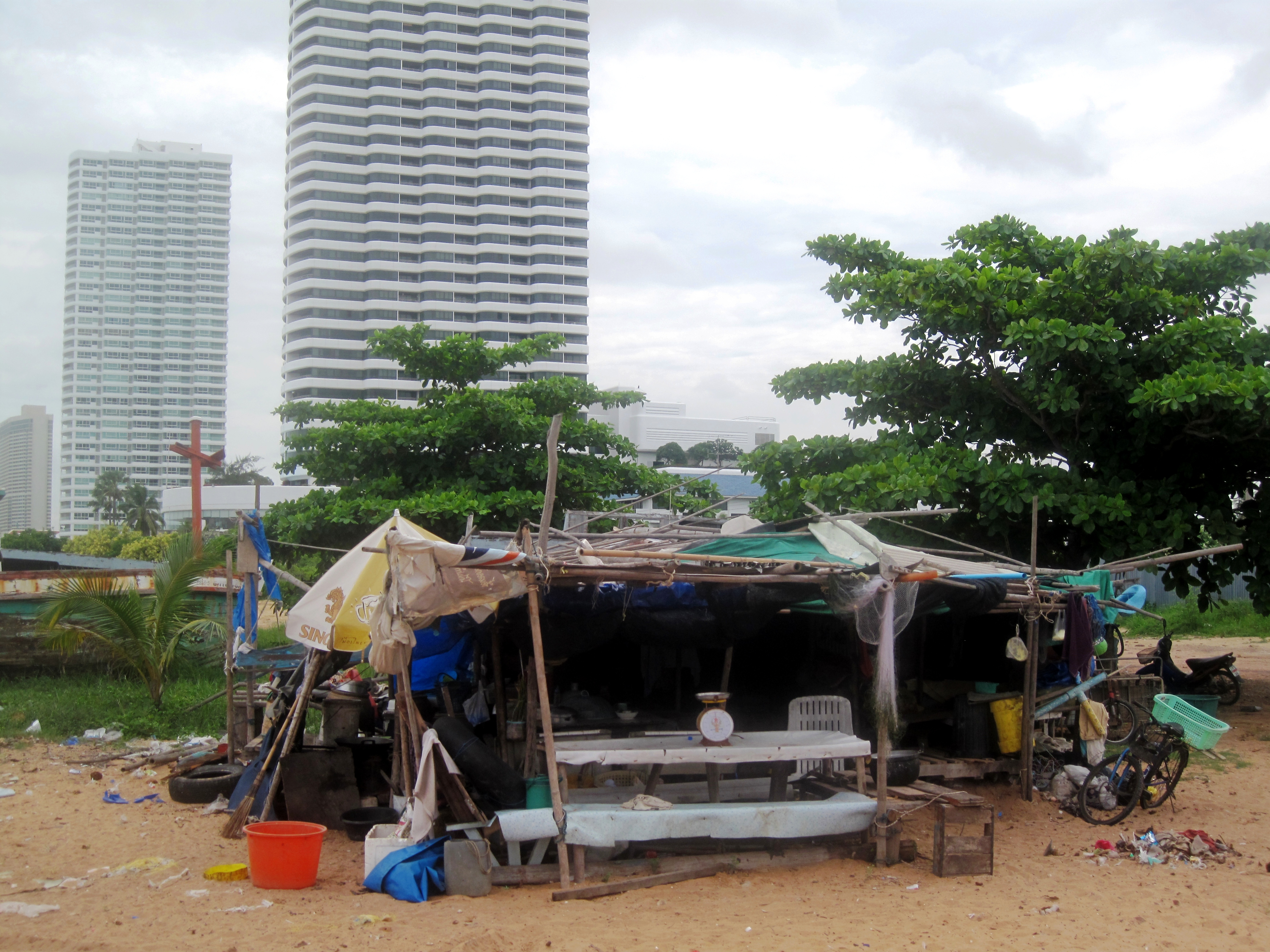 Like original, but more contrast